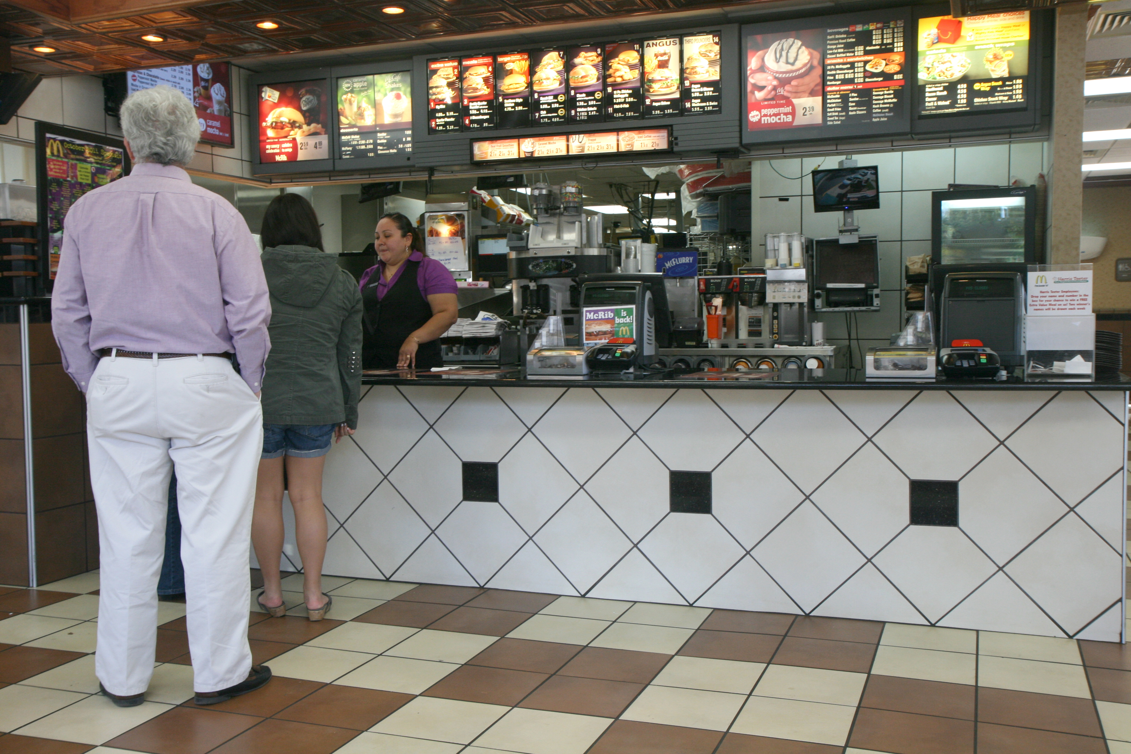 McDonald's at Cameron Village in Raleigh, North Carolina.